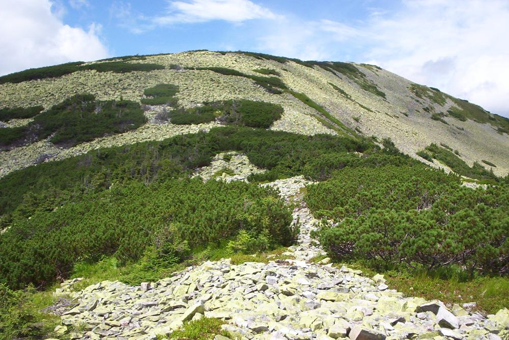 Popadia in Gorgany.